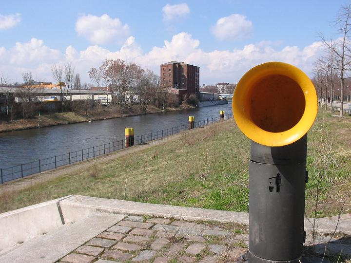 „Berlin-Spandauer Schifffahrtskanal“, promenade between Invalidenfriedhof (invalide’s cemetary) and Kieler Brücke (bridge)